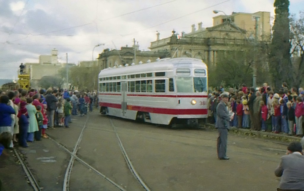 Public Transport Centenary, Victoria Square. Prototype "H1" tram 381 - Sunday 11 June 1978